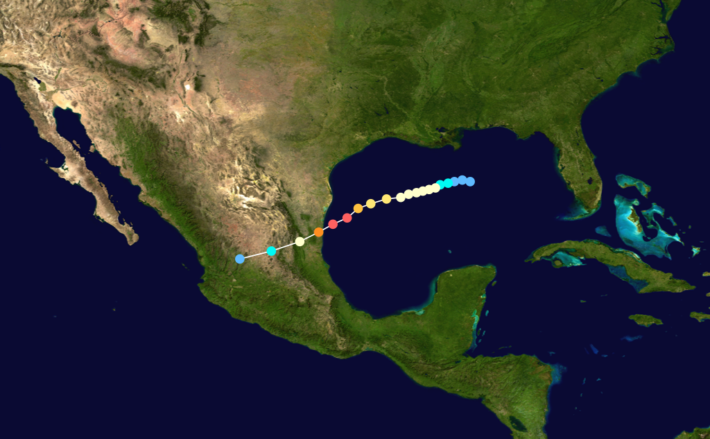 Hurricane Anita (1977) track. Uses the color scheme from the Saffir-Simpson Hurricane Scale.